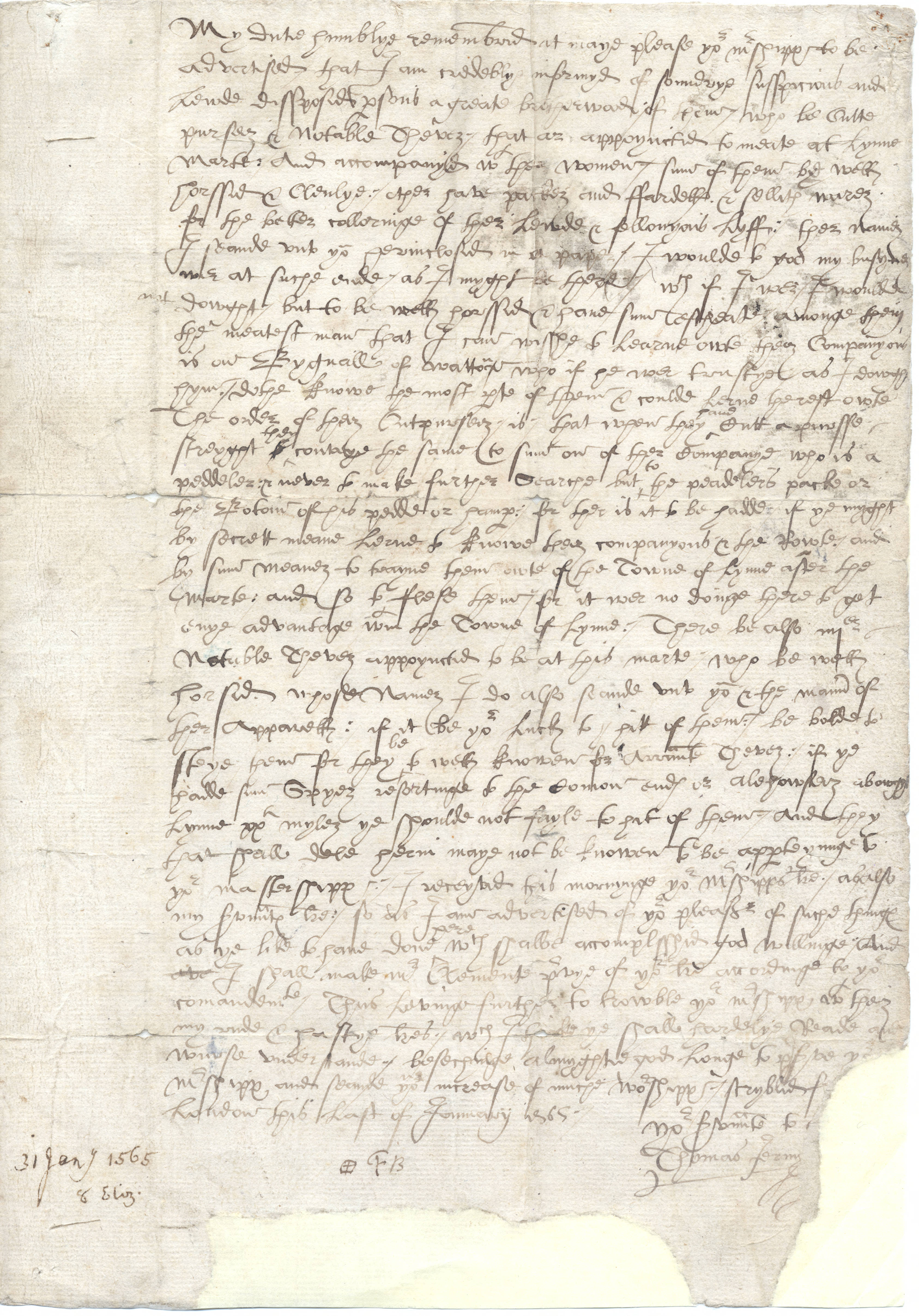 Letter of Thomas Jermy to William Paston (d. 1610), 37 lines in English plus signature, with address and note of sender. Creasing and wear patterns suggest entire sheet was previously folded quite small with address on the outside. Letter and address are in one hand (Thomas Jermy's); note on sender ("Jarmes laste lettre") is possibly in William Paston's hand; initials and date notation of eighteenth-century Norfolk antiquarian Francis Blomefield are at foot of letter. Paper is somewhat stained and damaged, especially along fold lines, but damage has been stabilized by repairs, including grafted modern paper, notwithstanding minor text loss at lower right corner.